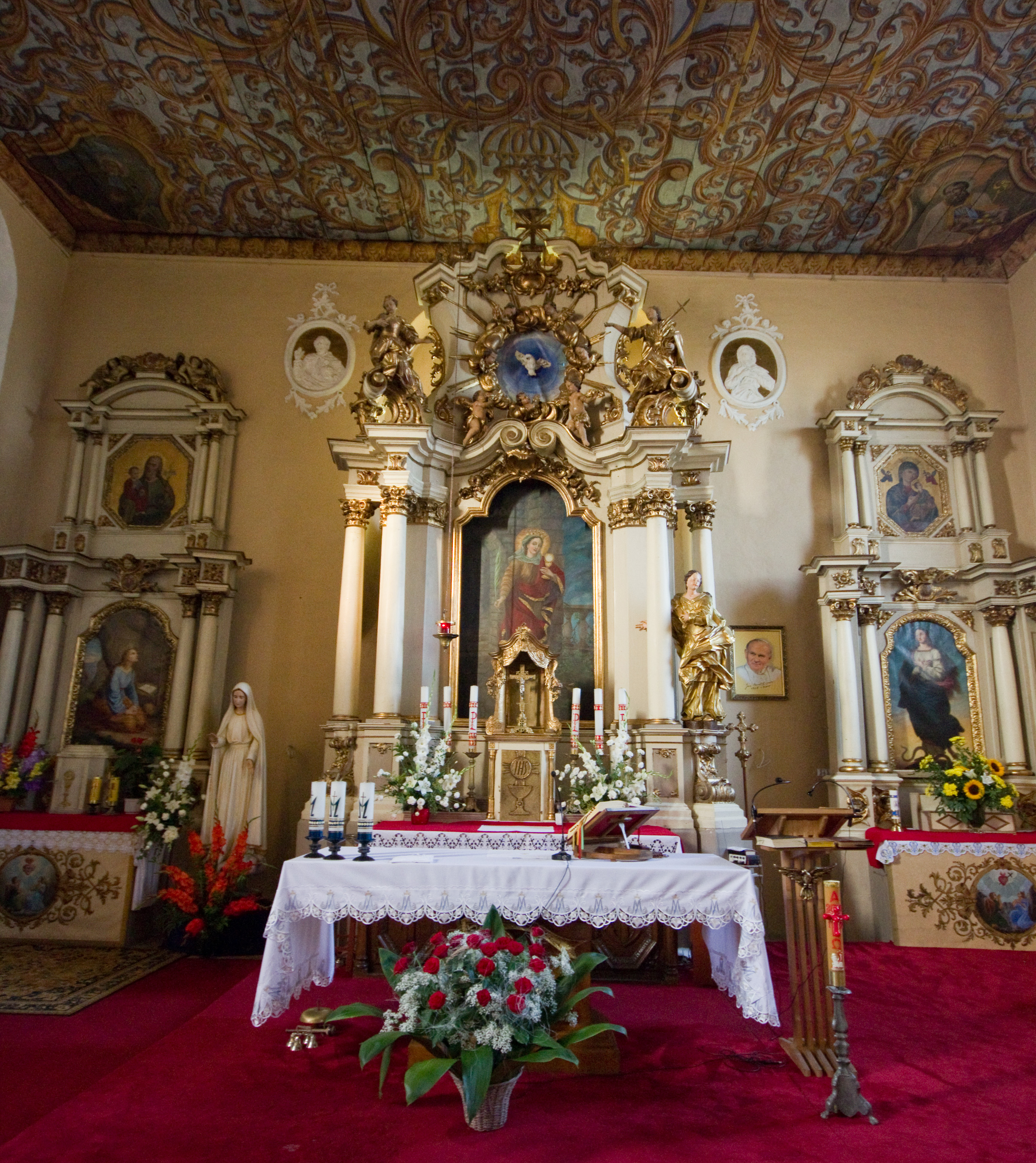 Church, Rogóż, gmina Lidzbark Warmiński, powiat lidzbarski, Warmian-Masurian Voivodeship